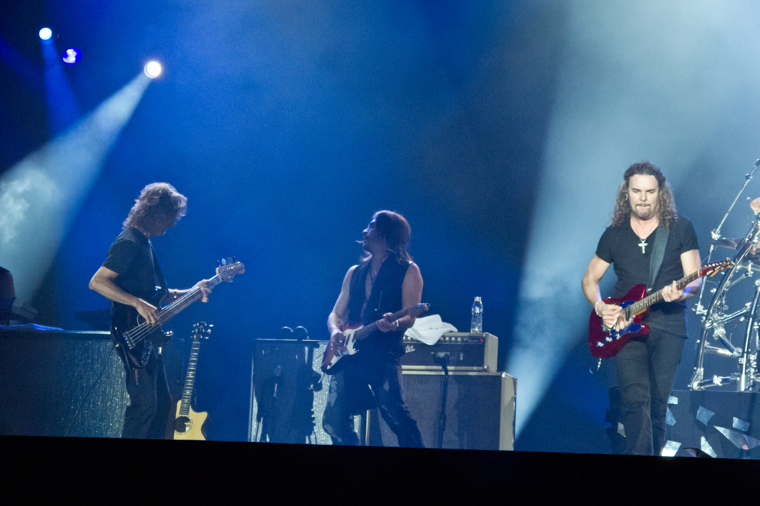 Maná in concert in Rock in Rio in Madrid in 2012.